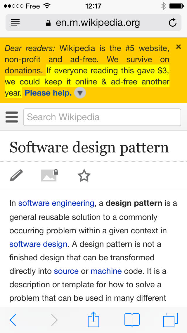 Salutation mobile banner